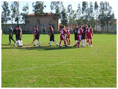 Naftan - Polonia (Exhibition game)